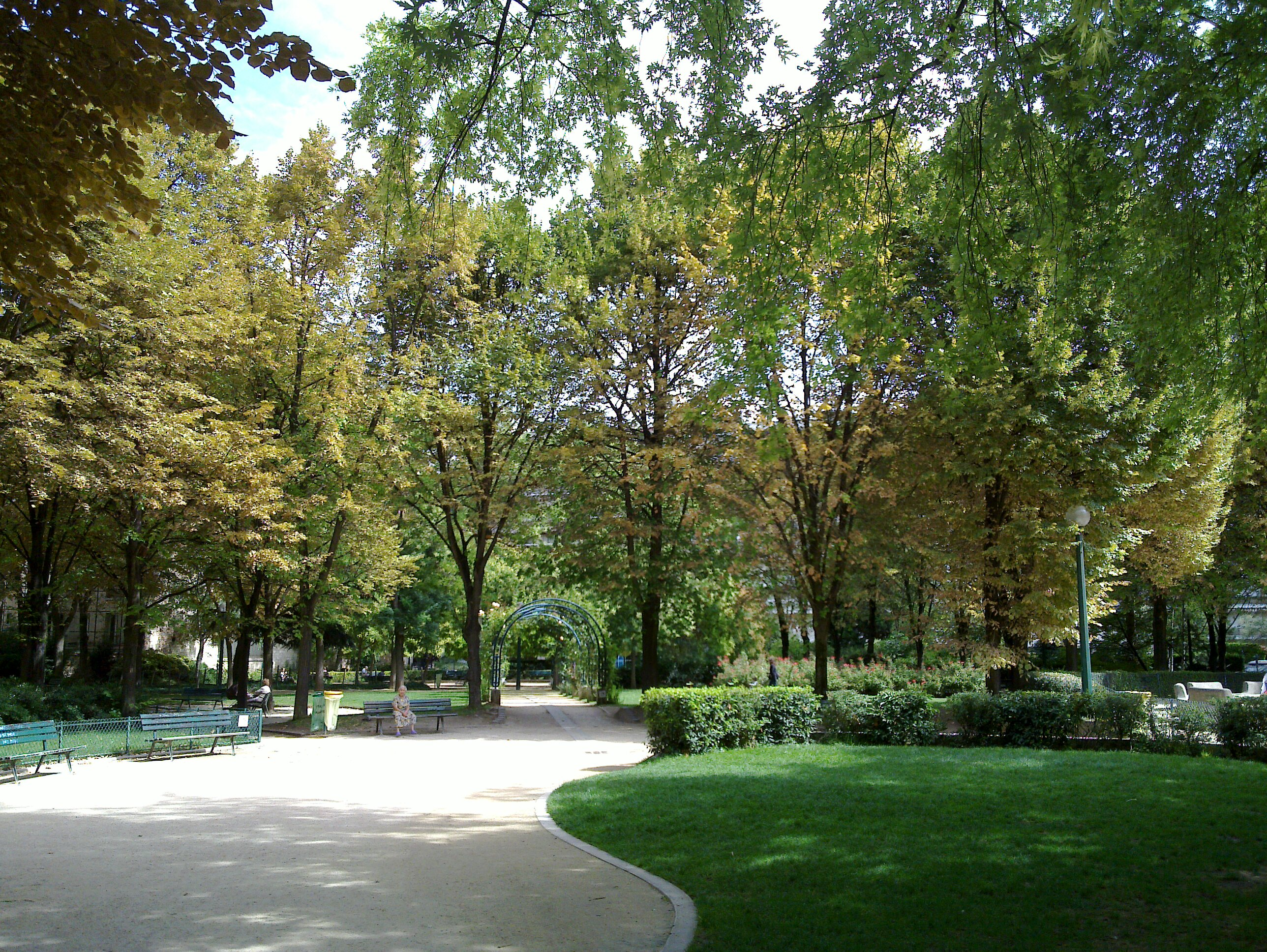 Square du Clos-Feuquières, Paris